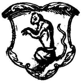 Coat of arms Kot Morski from Heraldyka polska wieków średnich by Franciszek Piekosiński